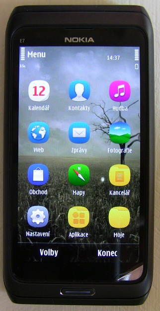 Picture of mobilephone Nokia E7